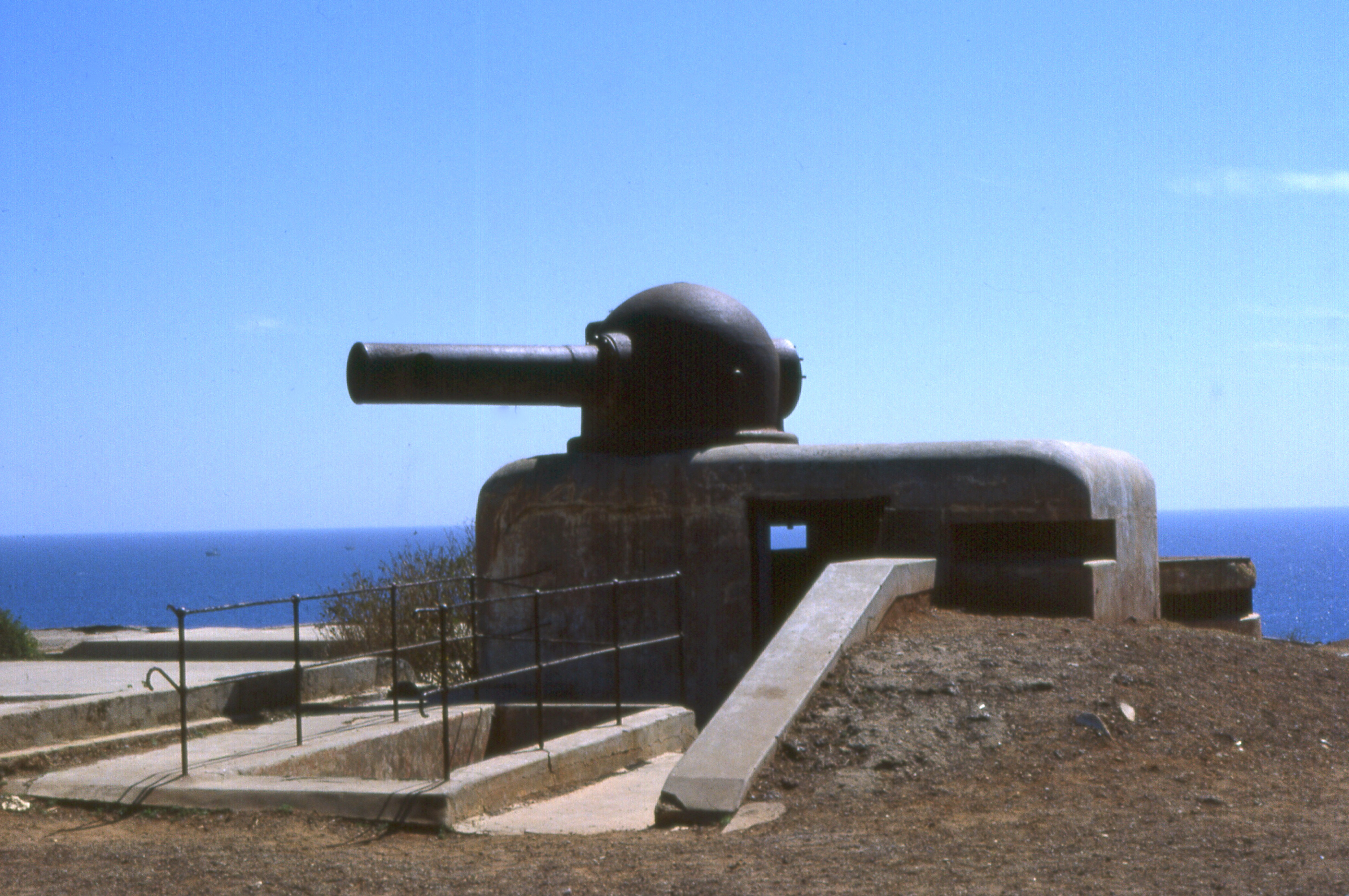 Rangefinder of Gorée Island battery, near Dakar, Senegal